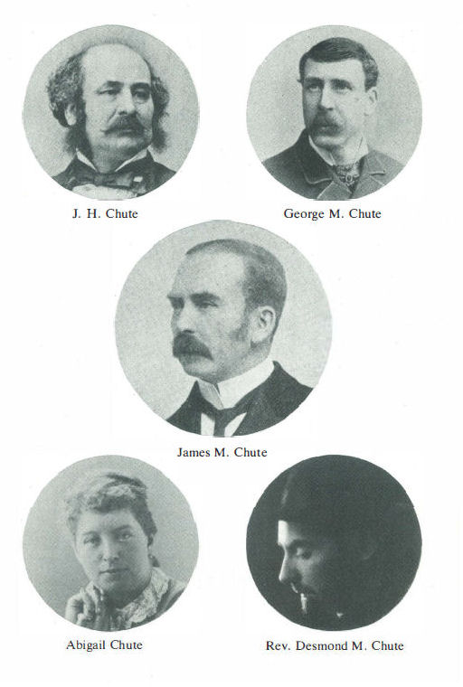 Photographic portraits of the Chute Family of Bristol (1878-1902)